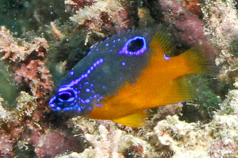 A juvenile Lagoon Damsel, Hemiglyphidodon plagiometopon, at Dampier, Western Australia